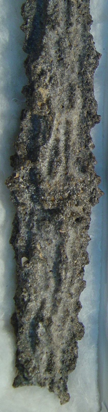 Fulgurite I took this photo in october 2005